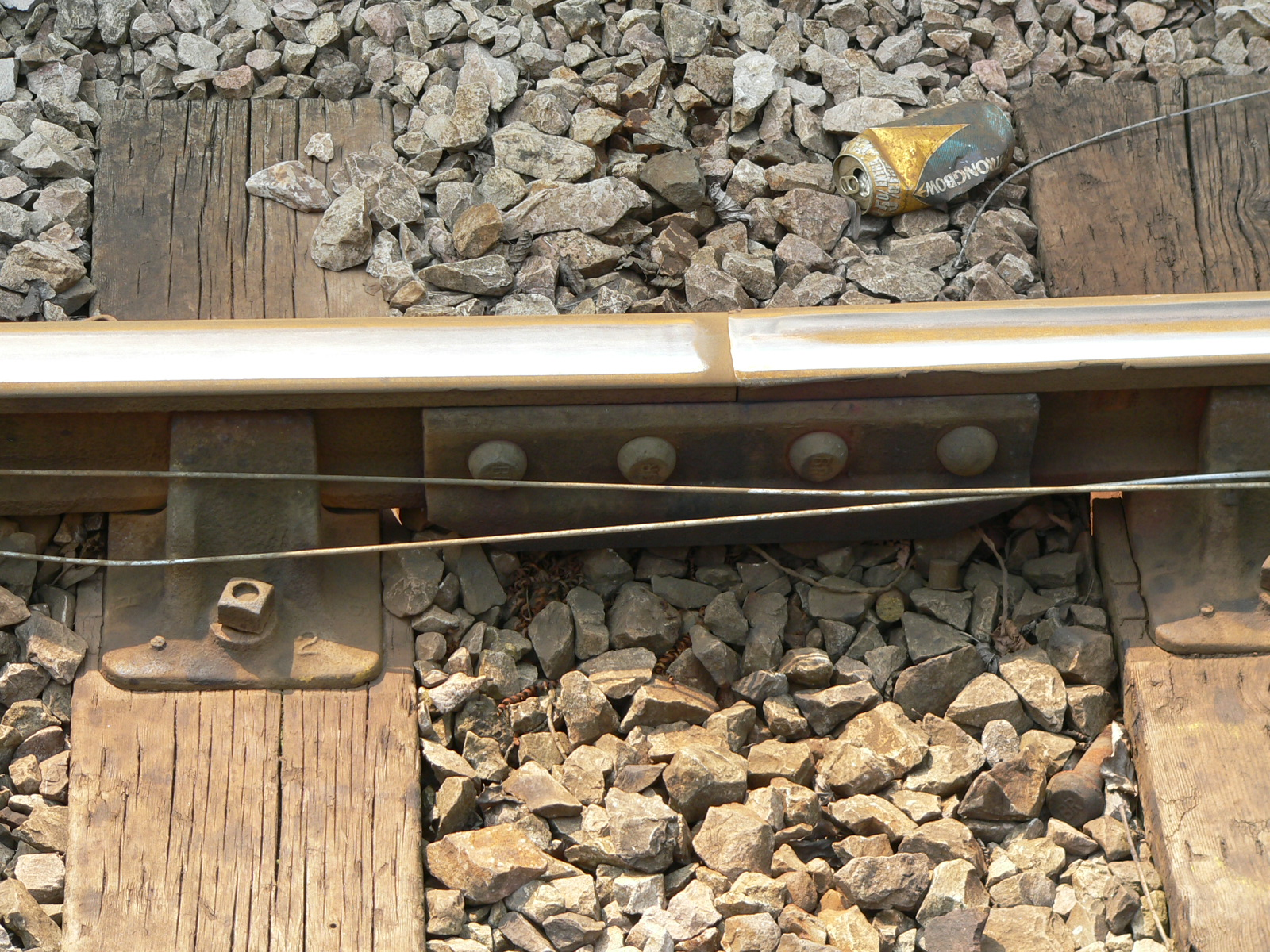 A fishplate secures the joint between two lengths of bullhead rail at Cardiff Bay railway station. A rail chair is on the very left of the image.